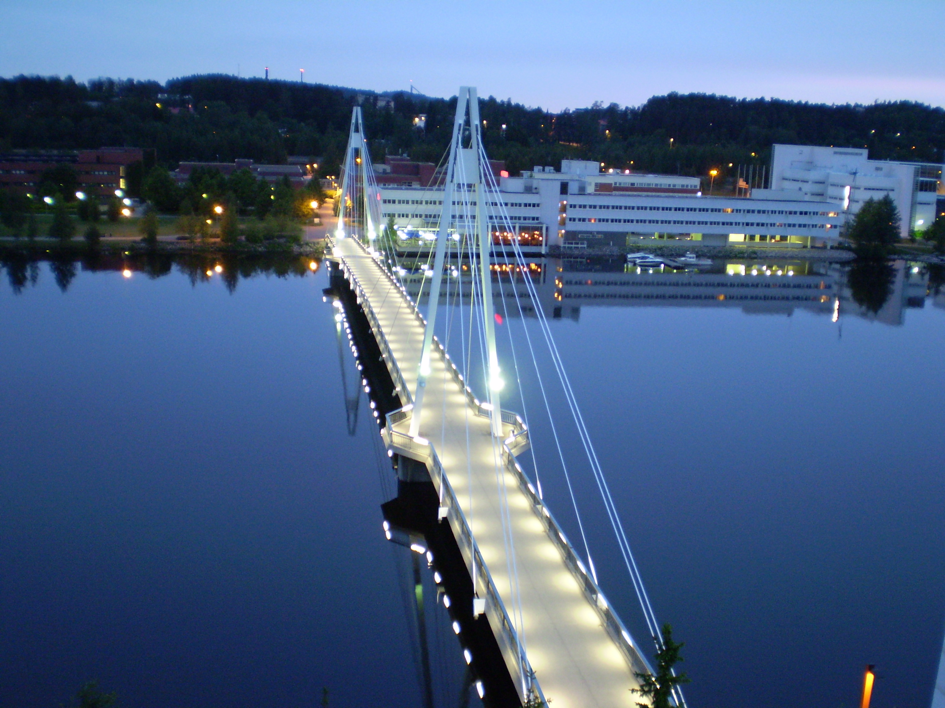 Ylistö Bridge in Jyväskylä, Finland